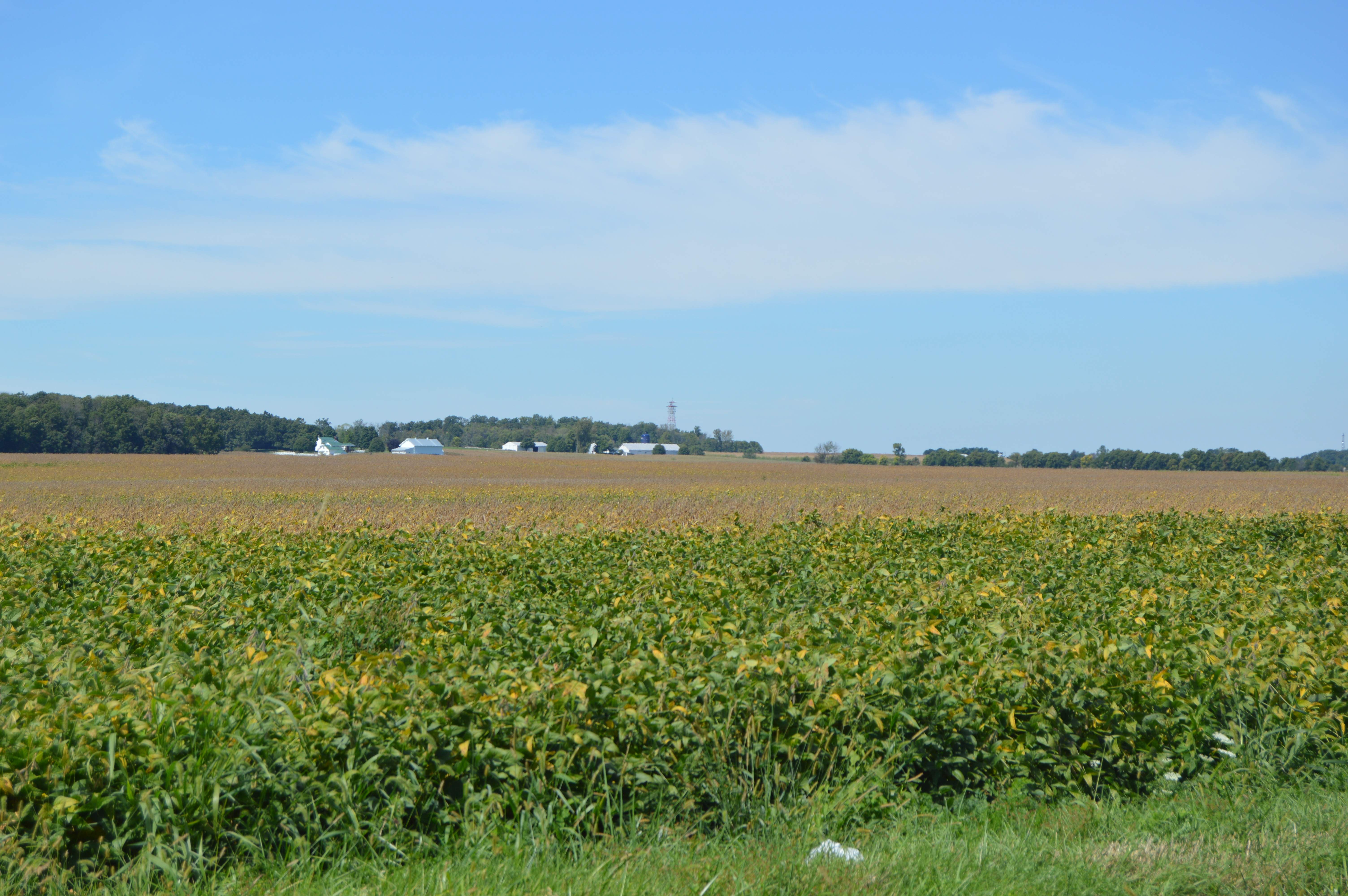 Fields on the western side of Toby Road in the southeastern corner of Jackson Township, Preble County, Ohio, United States.